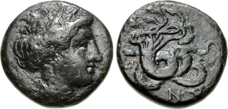 Apollonia. 4th century BC. Æ (17mm, 5.38 g, 4h). Wreathed head of Persephone right / Hydra left.